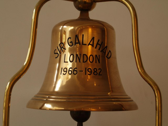 The Falkland Islands Memorial Chapel The Falkland Islands Memorial Chapel at Pangbourne College has been built to commemorate the lives and sacrifice of all those who died in the South Atlantic in 1982 - to stand as a permanent and ‘living’ memorial to remember them - and the courage of the thousands of Servicemen and women who served with them to protect the sovereignty of the Falkland Islands. (